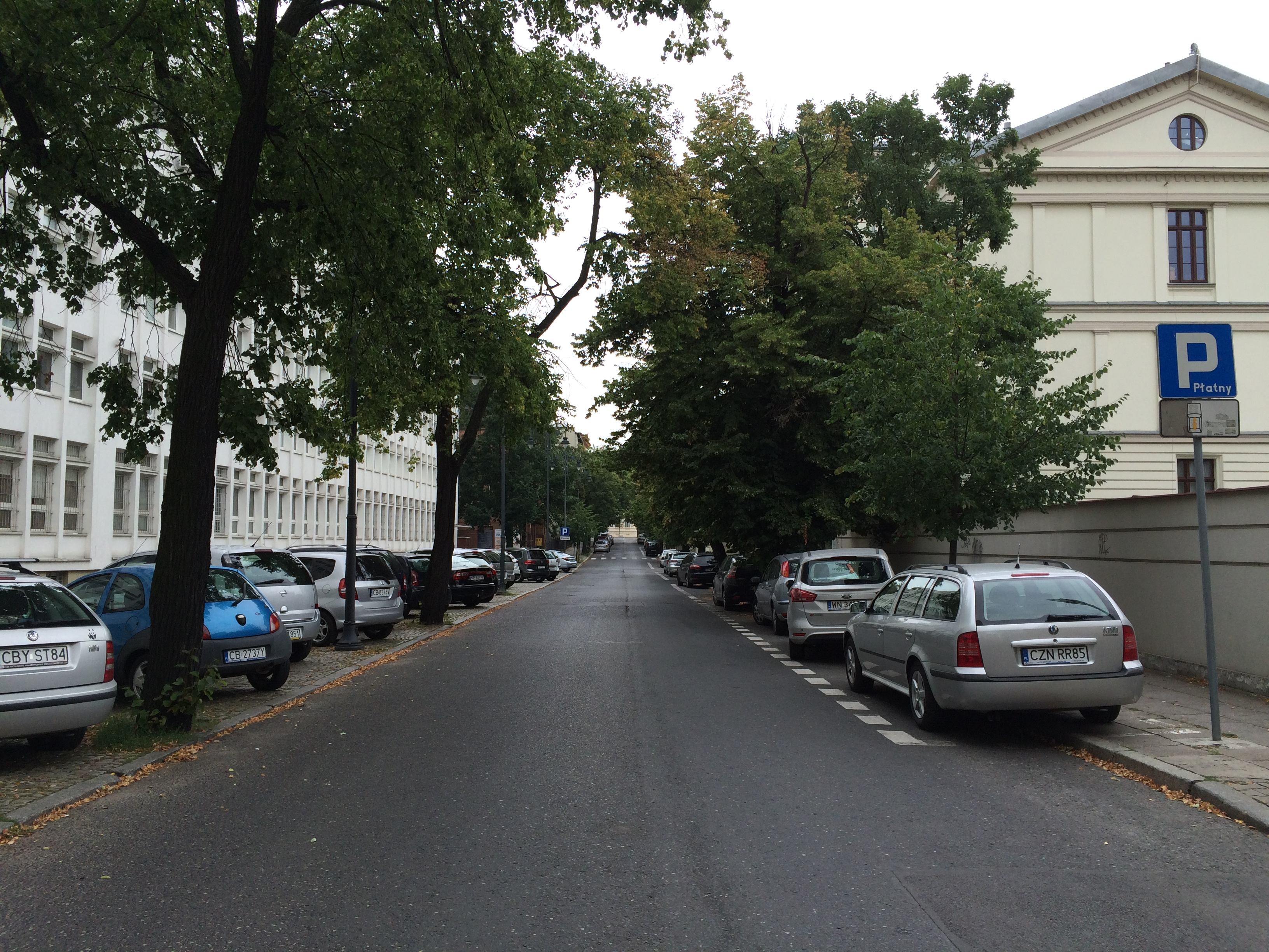 Street view northbound